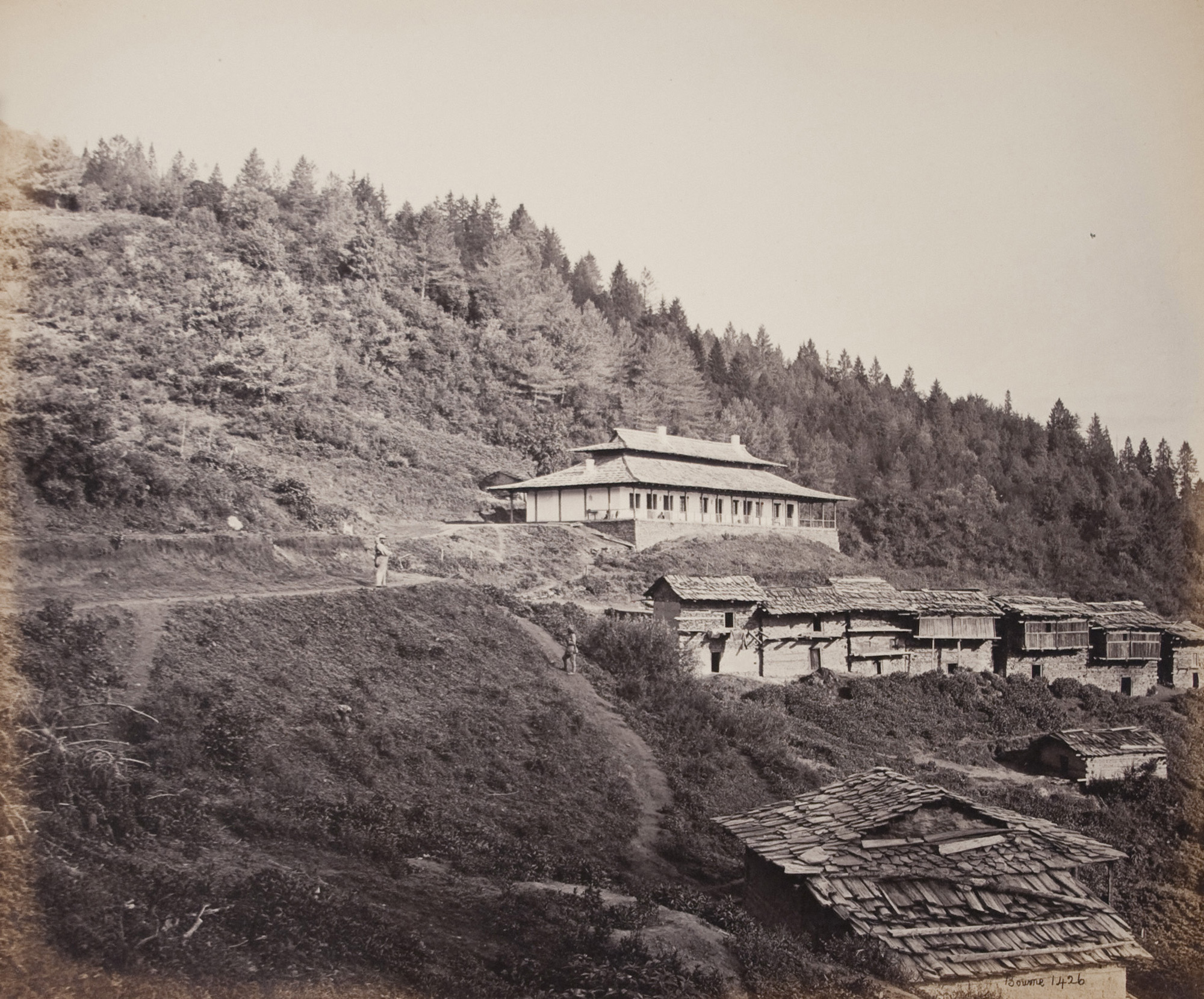 Artist: Samuel Bourne Artist Bio: British, 1834 - 1912 Creation Date: c. 1868 Print Date: ca. 1868 Process: albumen print Credit Line: Gift of Jeffrey S. Pollock Accession Number: 1994.020.001